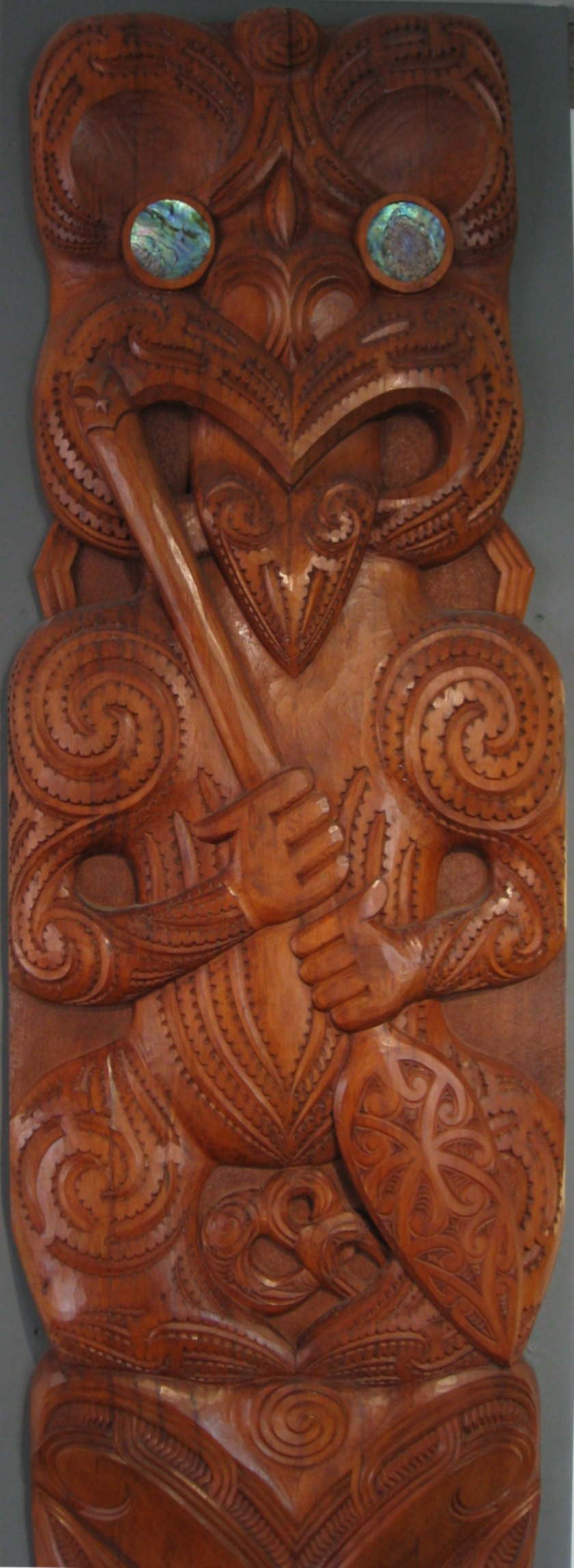 Detail of a Poupou by Rangi Hetet hanging in the Dowse Art Museum. One of a pair of poupou commissioned by the museum on their fifth anniversary in 1975. The poupou are carved wooden figures with inset Pāua shell eyes. This figure represents Te Puni. This image copyright User:Stuartyeates under :en:Commons:COM:FOP#New Zealand| .